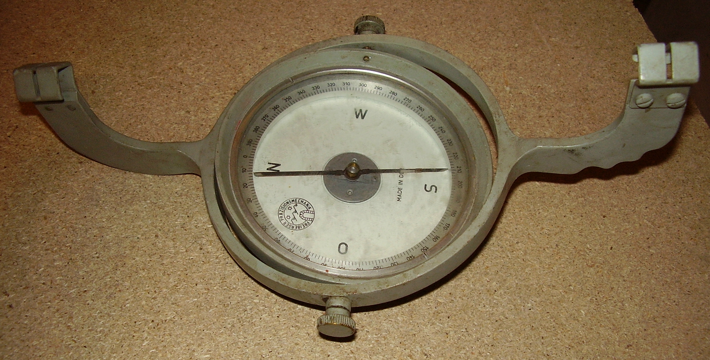 Mine surveyors compass, gradian divided circle.